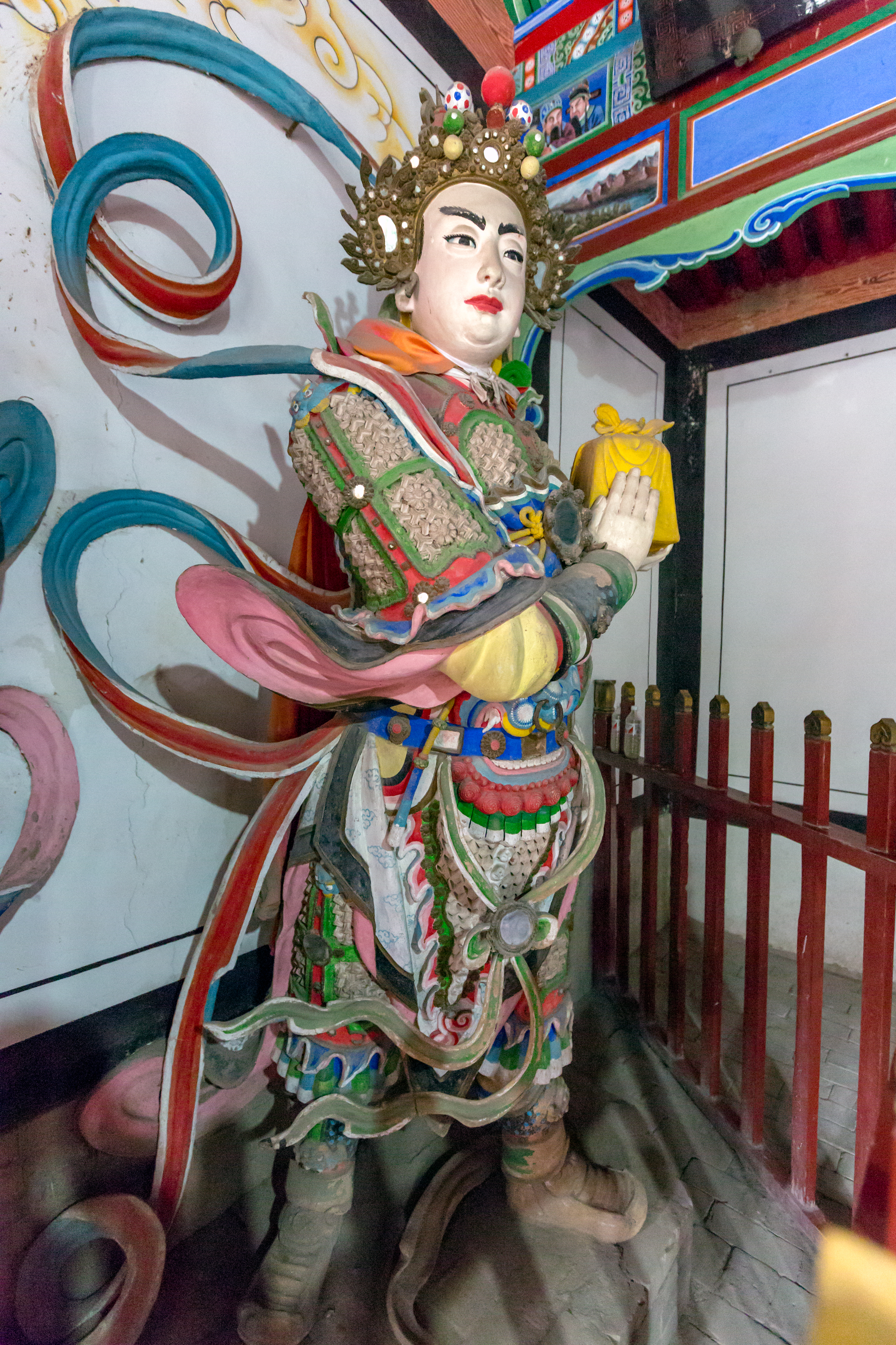 Guan Xing (關興)